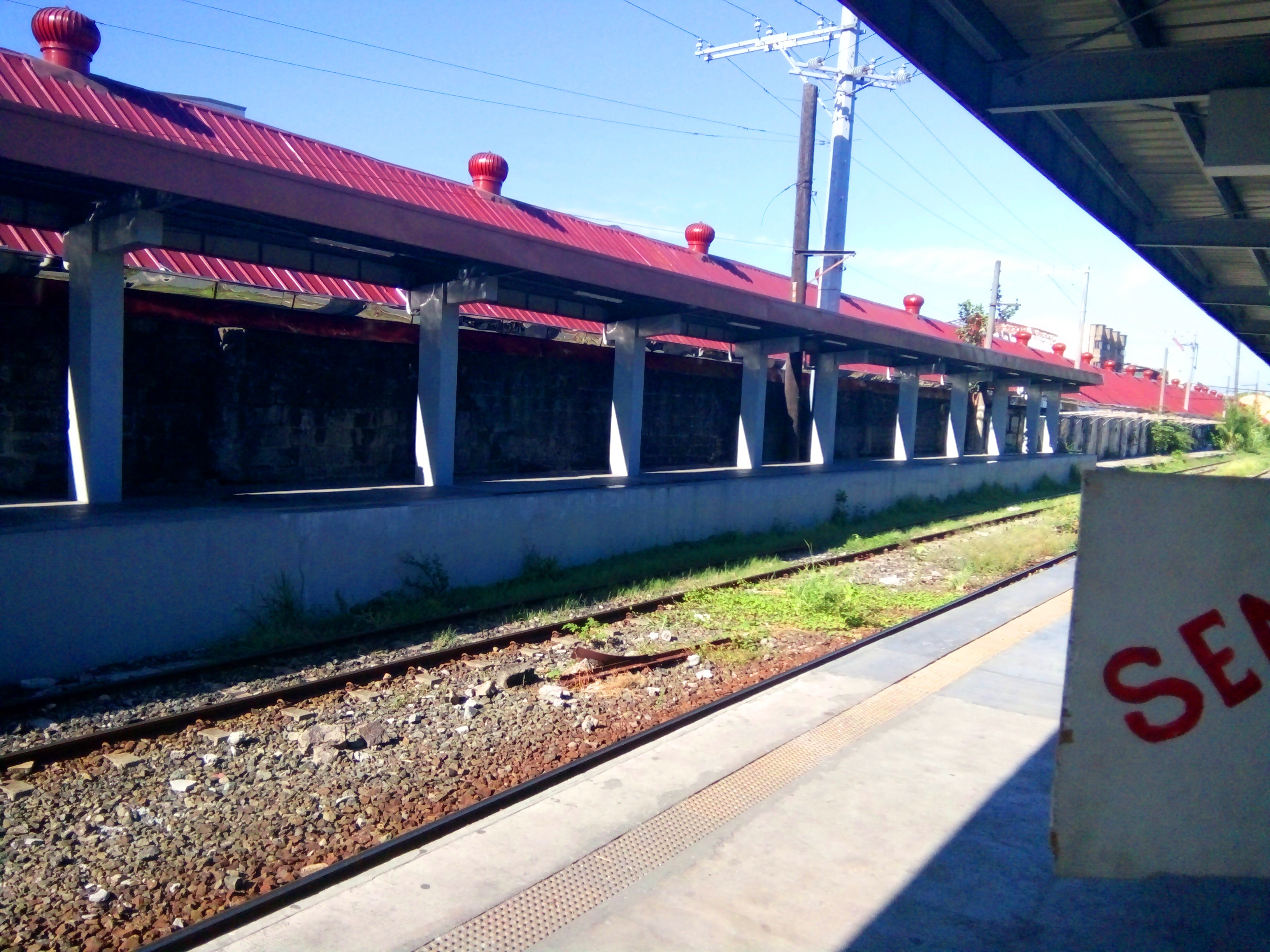 plataporma ng PNR Blumentritt